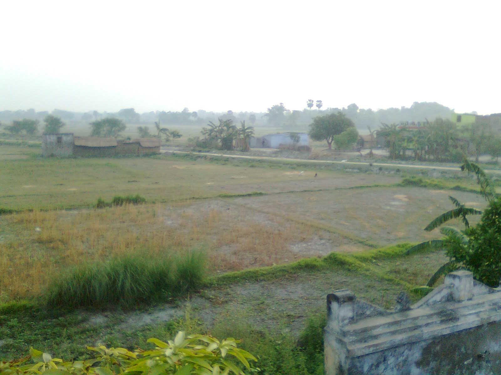 This is a village in the mashrakh block of saran distric in bihar state of india